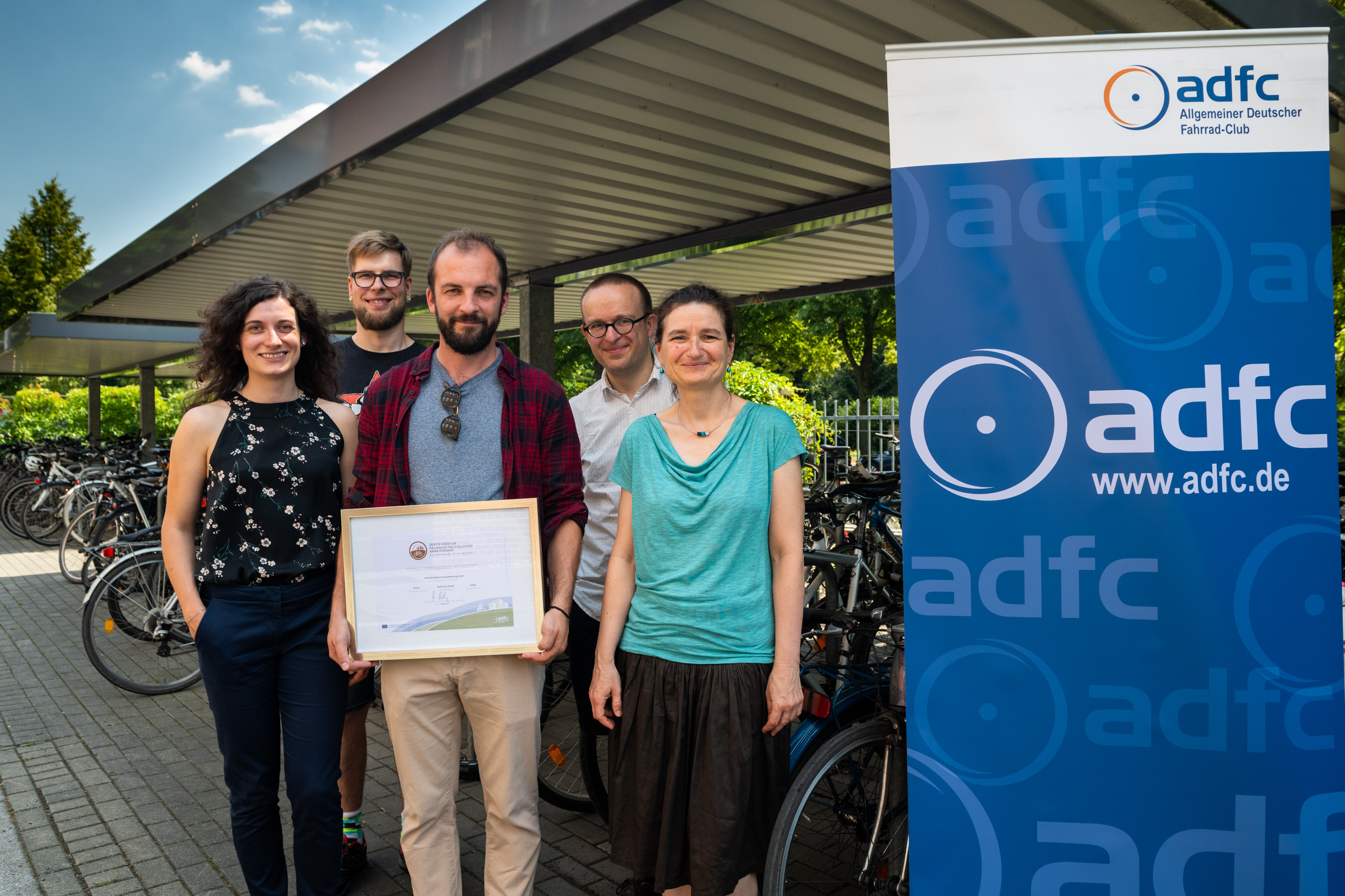 The photo shows an example of an official certification as Cycle-friendly Employer in Germany.